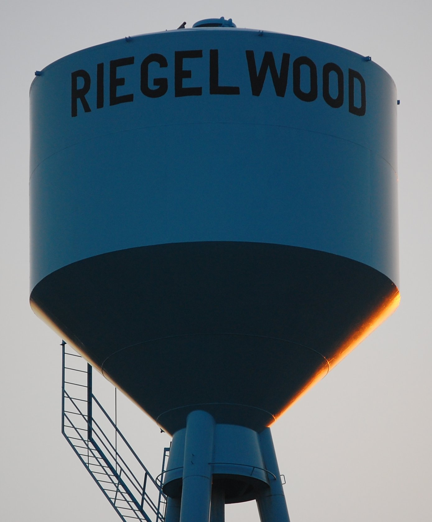 Riegelwood North Carolina Watertowe